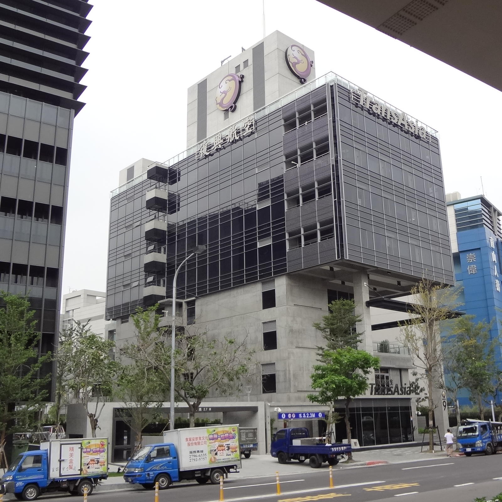 TransAsia Airways headquarters in Neihu District, Taipei - No. 9, Sec. 1, Tiding Blvd., Neihu Dist., Taipei City 11494, Taiwan (R.O.C.)